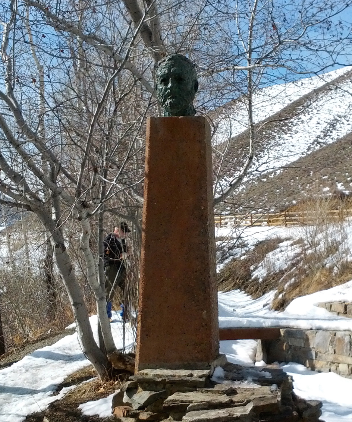 Ernest Hemingway Memorial above Trail Creek in Sun Valley, Idaho. The bronze bust of Hemingway was dedicated on July 21, 1966, which would have been Hemingway's sixty-seventh birthday. A bronze plaque at the base of the monument contains the words, "Best of all he loved the fall, the leaves yellow on cottonwoods, leaves floating on trout streams, and above the hills the high blue windless skies … Now he will be a part of them forever.